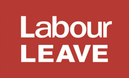 Labour Leave logo